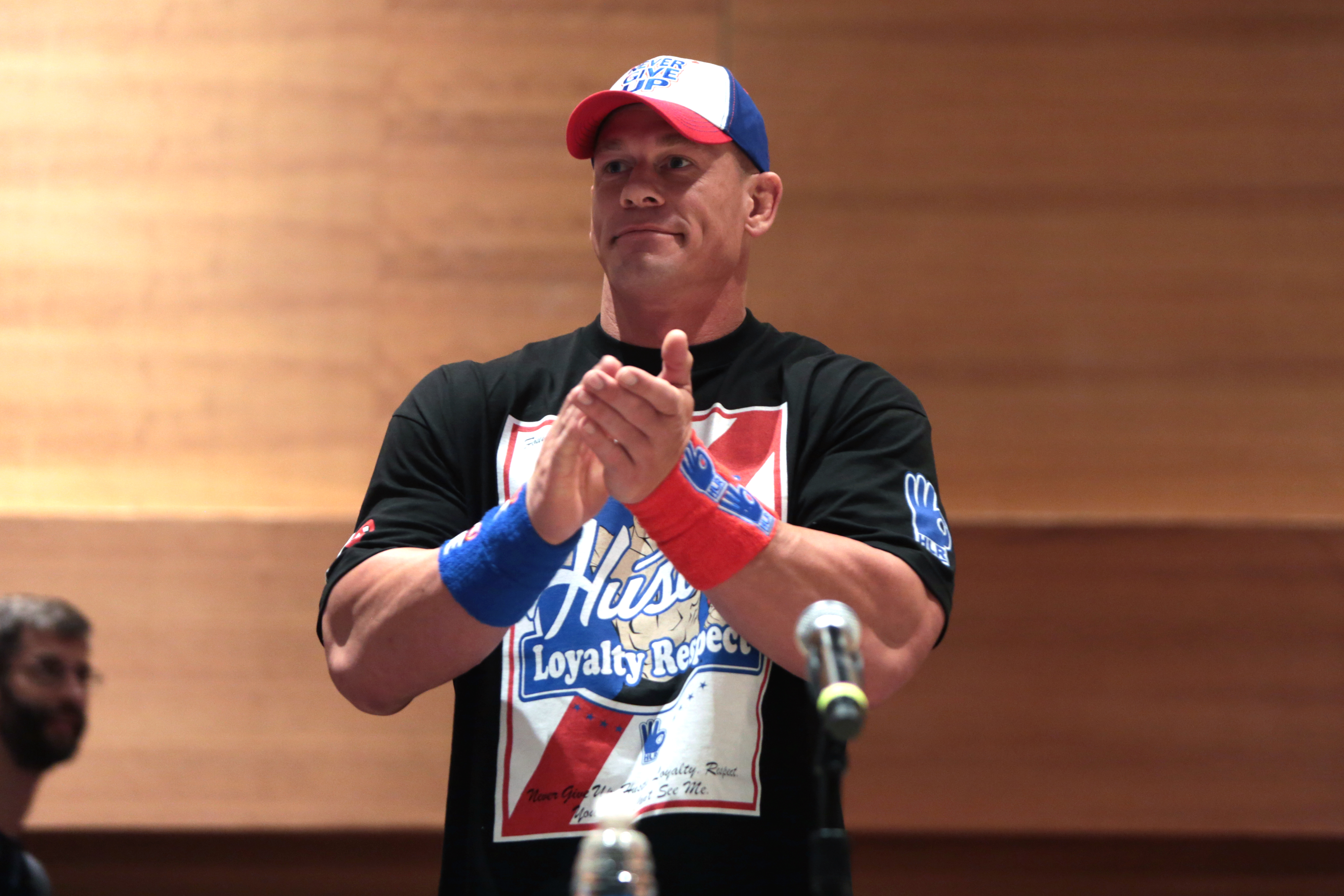 The Professional Wrestler John Cena at Phoenix ComicCon in 2016.